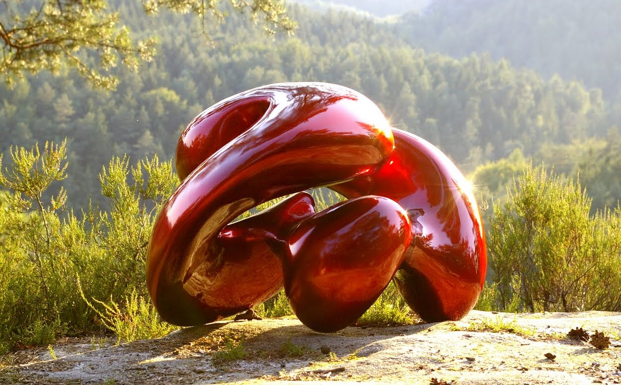 Red Pacific with red laquer on alloy